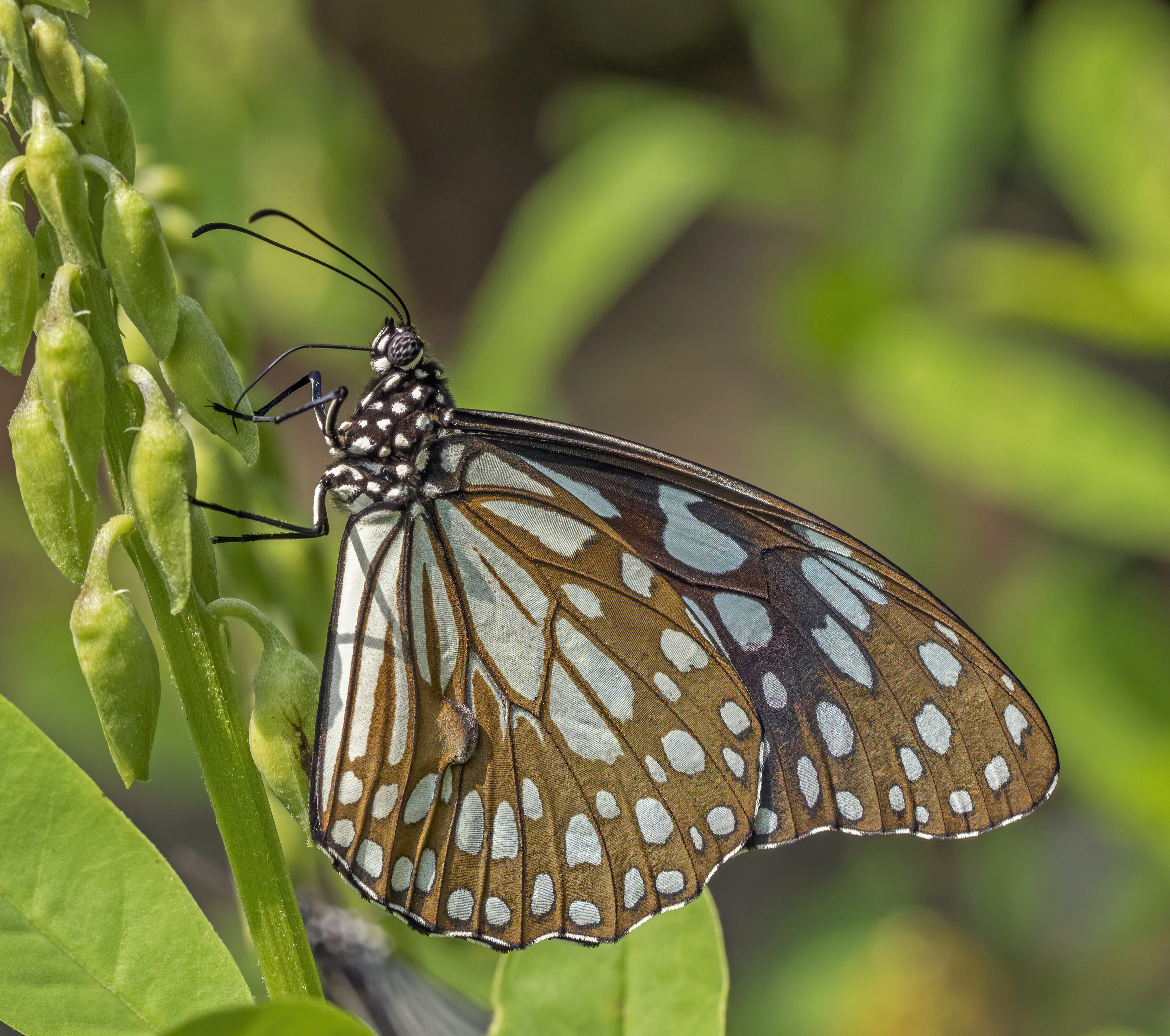 Blue tiger (Tirumala limniace exoticus) male, Kumarakom, Kerala, India